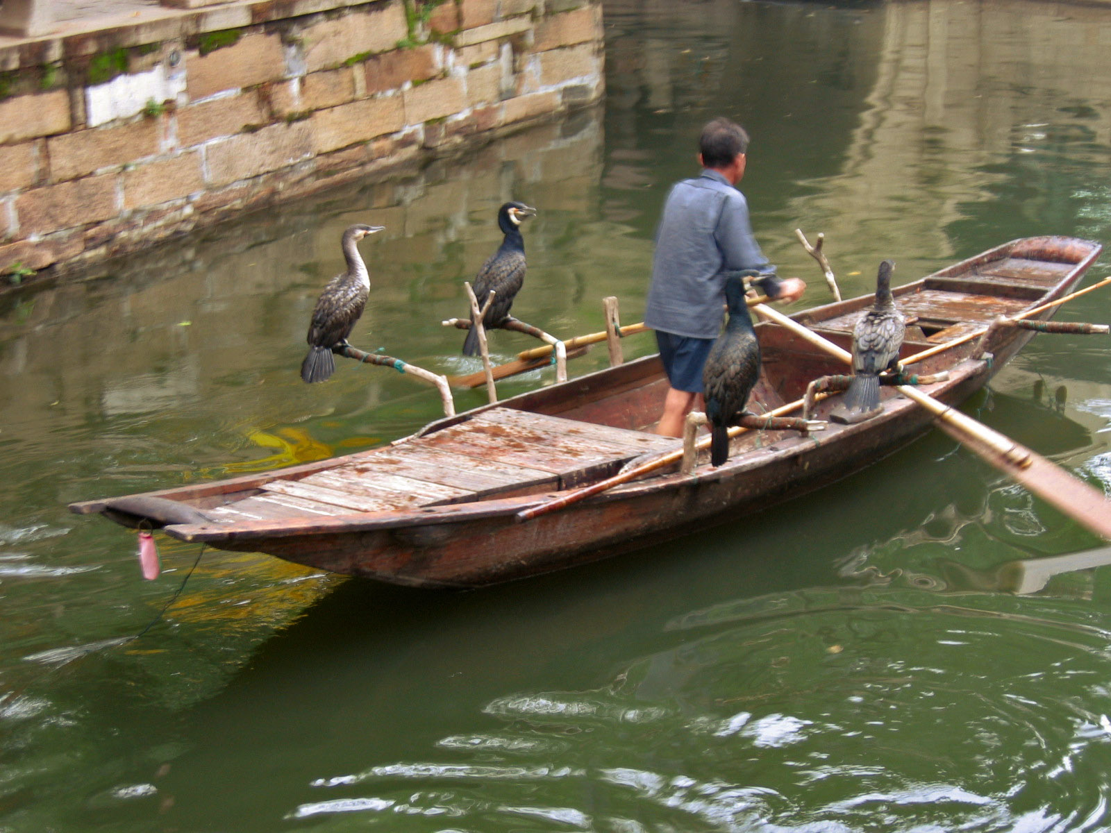 Cormorant fishing in Suzhou, China.